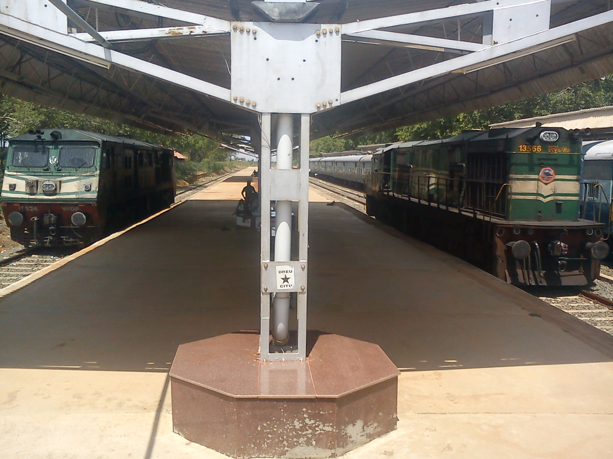 Sivagangai passengers waiting area